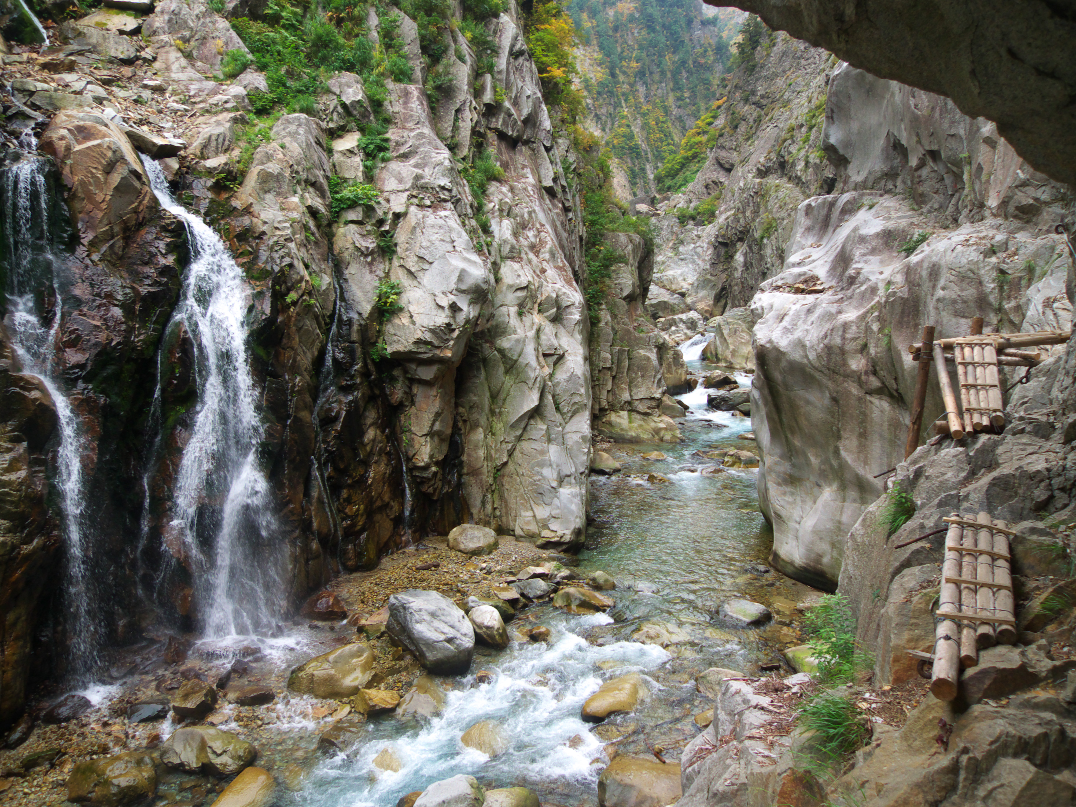 Hakuryukyo ("white dragon gorge") in Kurobe Gorge, as seen from the Nichiden Hodo trail